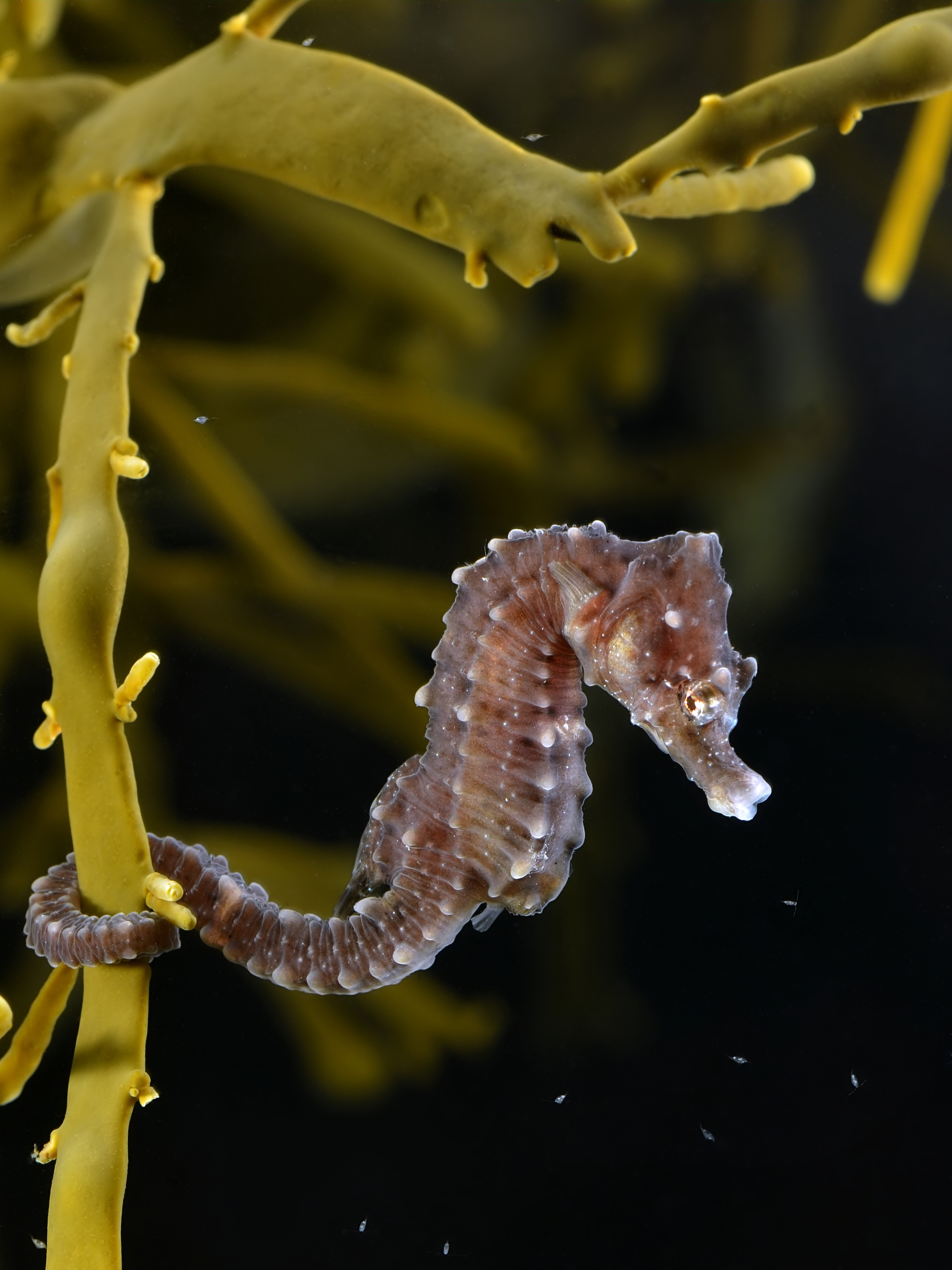 Short-snouted seahorse on knotted wrack. The animal was caught at 51°36′18.48″N 2°40′56.92″E / 51.6051333°N 2.6824778°E on the Oosthinder banks in the Belgian part of the North Sea